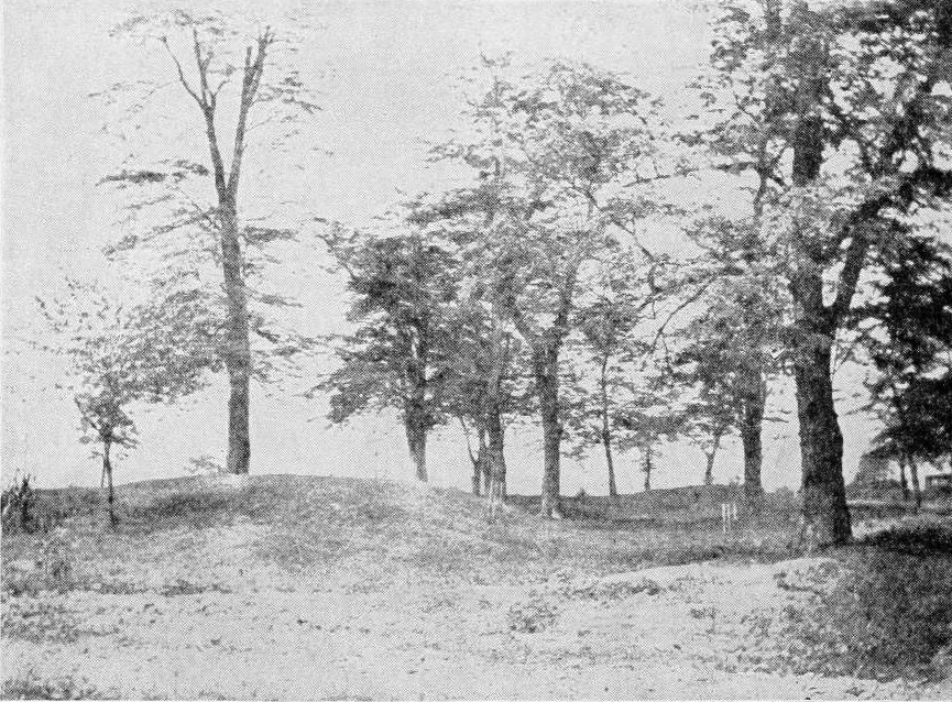 Fort Massac foundation impression, circa 19th-20th centuries from the book A student's history of Illinois by George Washington Smith.